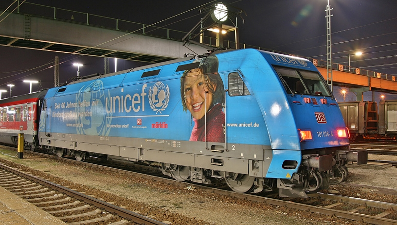 101 016 (DB class 101) with UNICEF ads at Ingolstadt main station